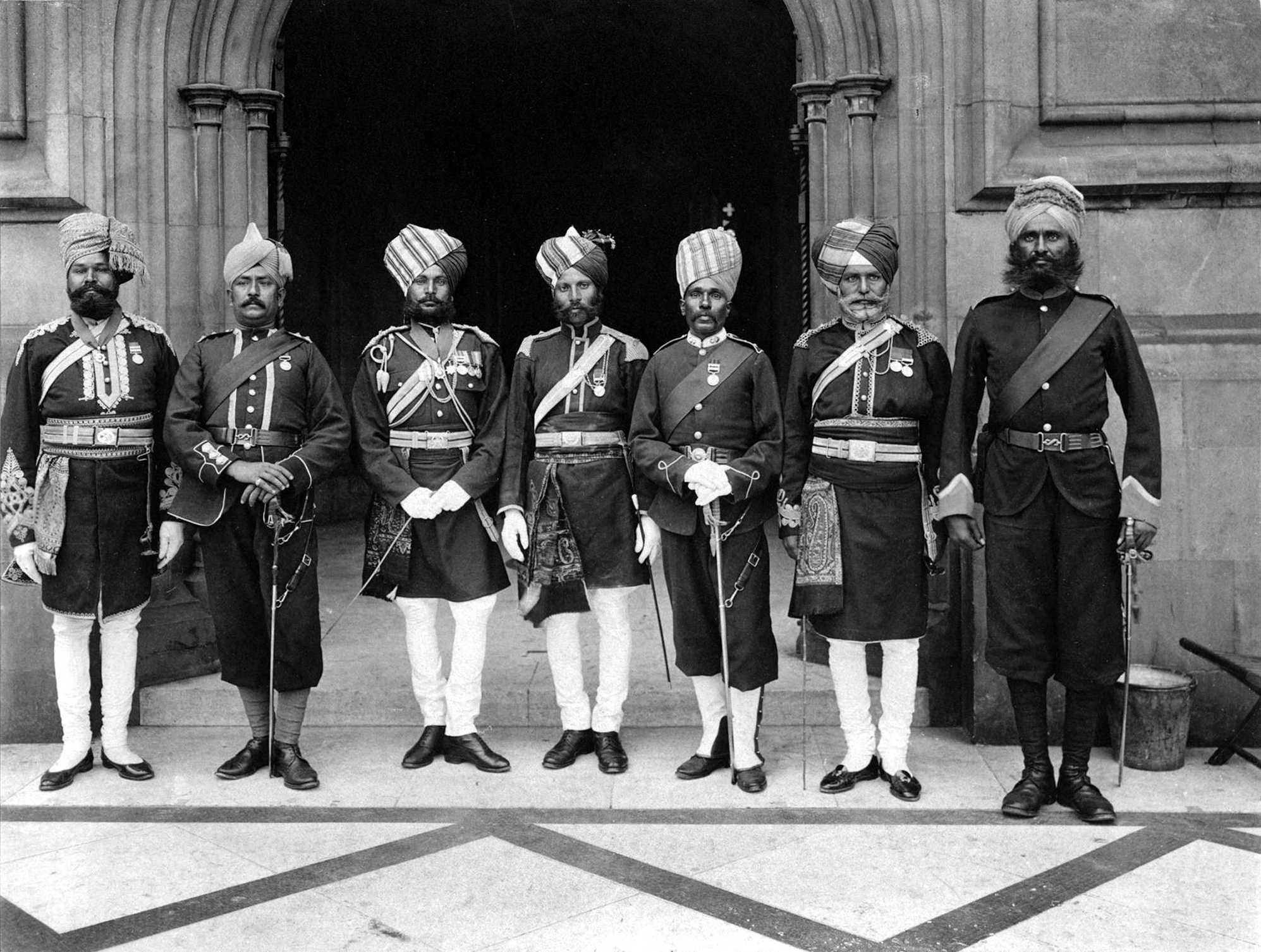 Seven Indian Officers, Imperial Service Troops attending the corronation of King Edward VII, on the terrace of the House of Commons, by Sir (John) Benjamin Stone (died 1914), given to the National Portrait Gallery, London in 1974. All images in this batch have been confirmed as author died before 1939 according to the official death date listed by the NPG.